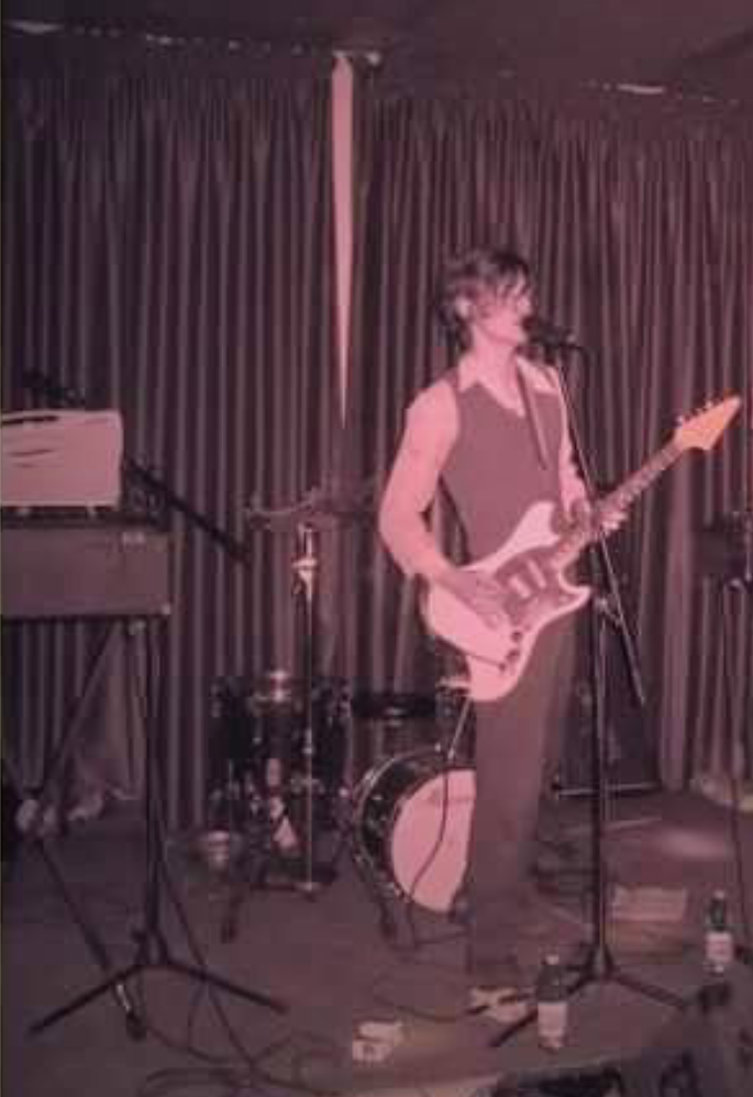 Zac Pennington live with Parenthetical Girls at Lucignolo, Verona, 2007.